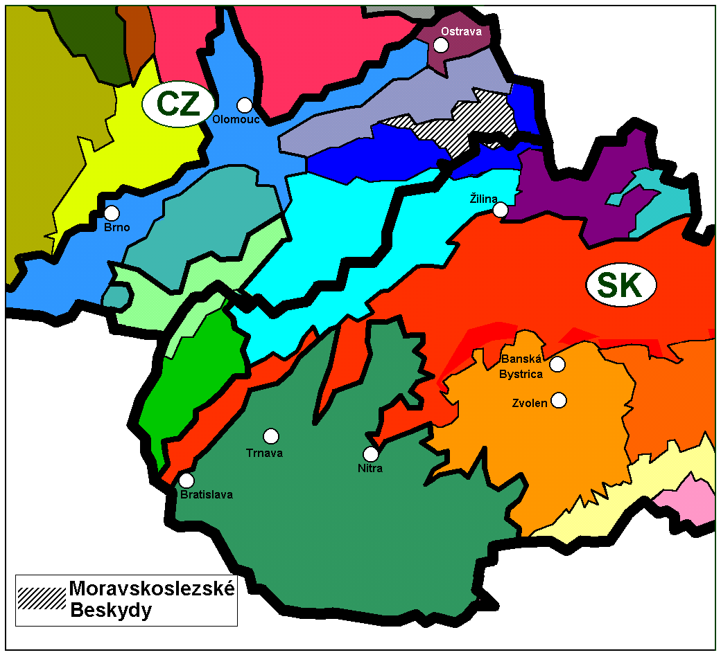 Situation of Moravskoslezské Beskydy in the Czech Republic and in Slovakia